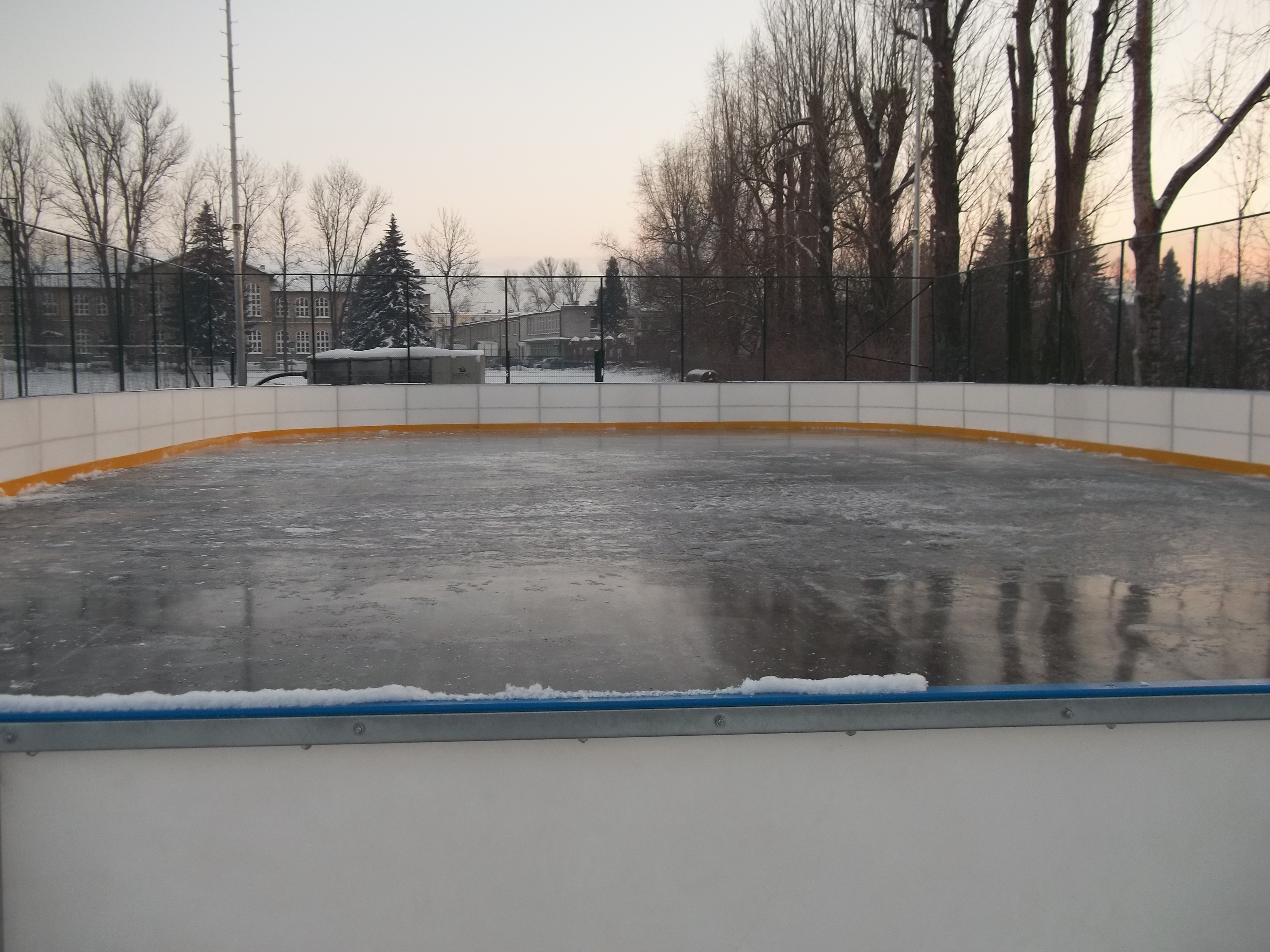 Skating rink in Choroszcz